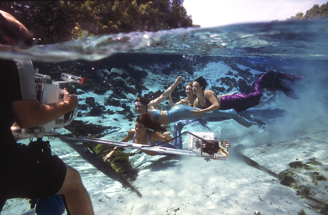 Demonstration of underwater photography.